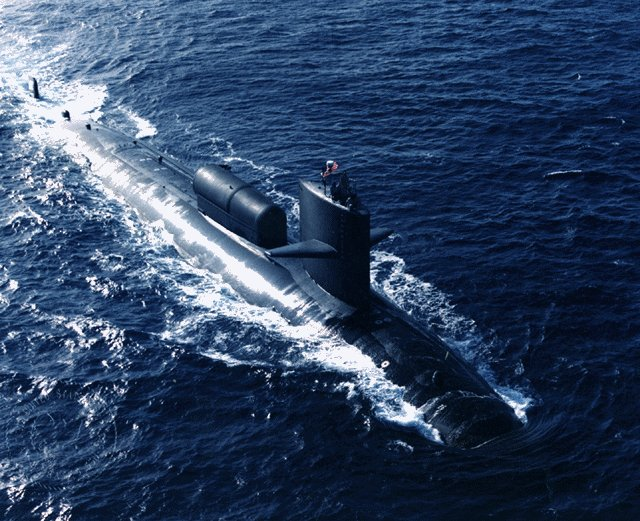 United States Navy attack submarine USS William H. Bates (SSN-680) with Dry Deck Shelter on deck abaft her sail